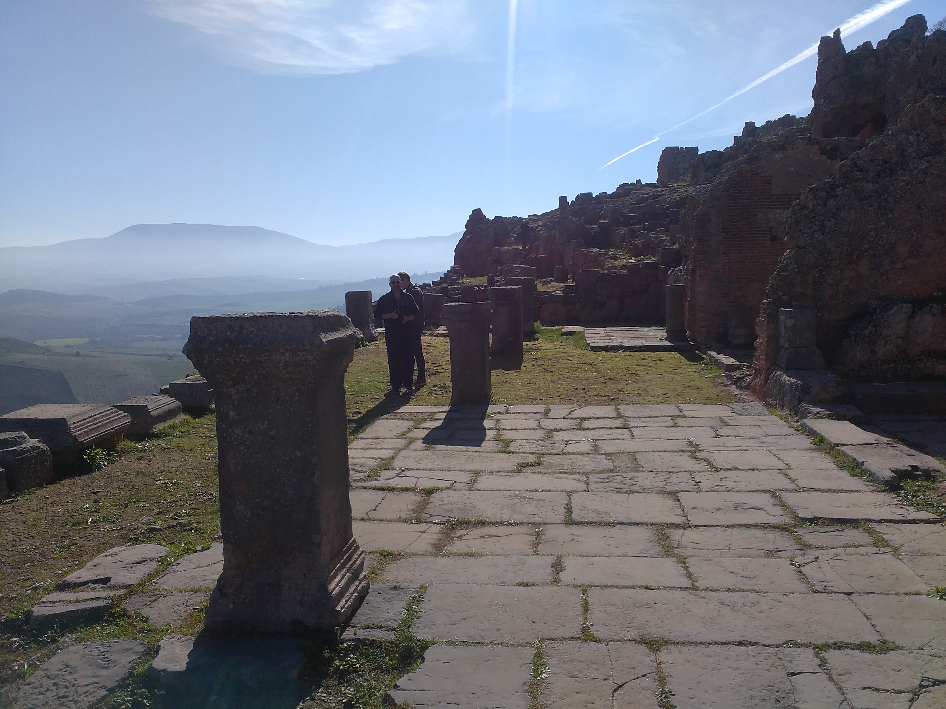 Tiddis Ruins overlooking ُElourassi Mountains